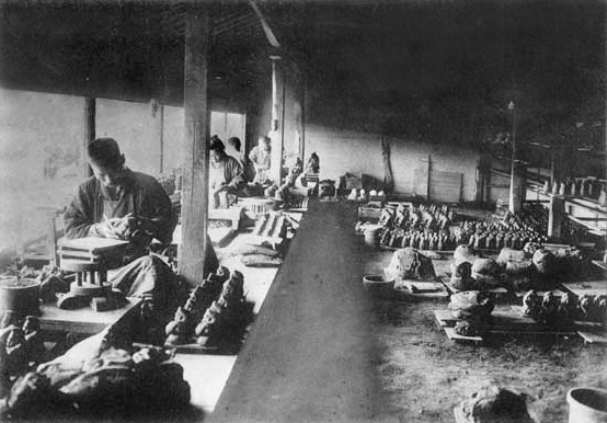 Making Bizen ware in Bizen, Okayama.